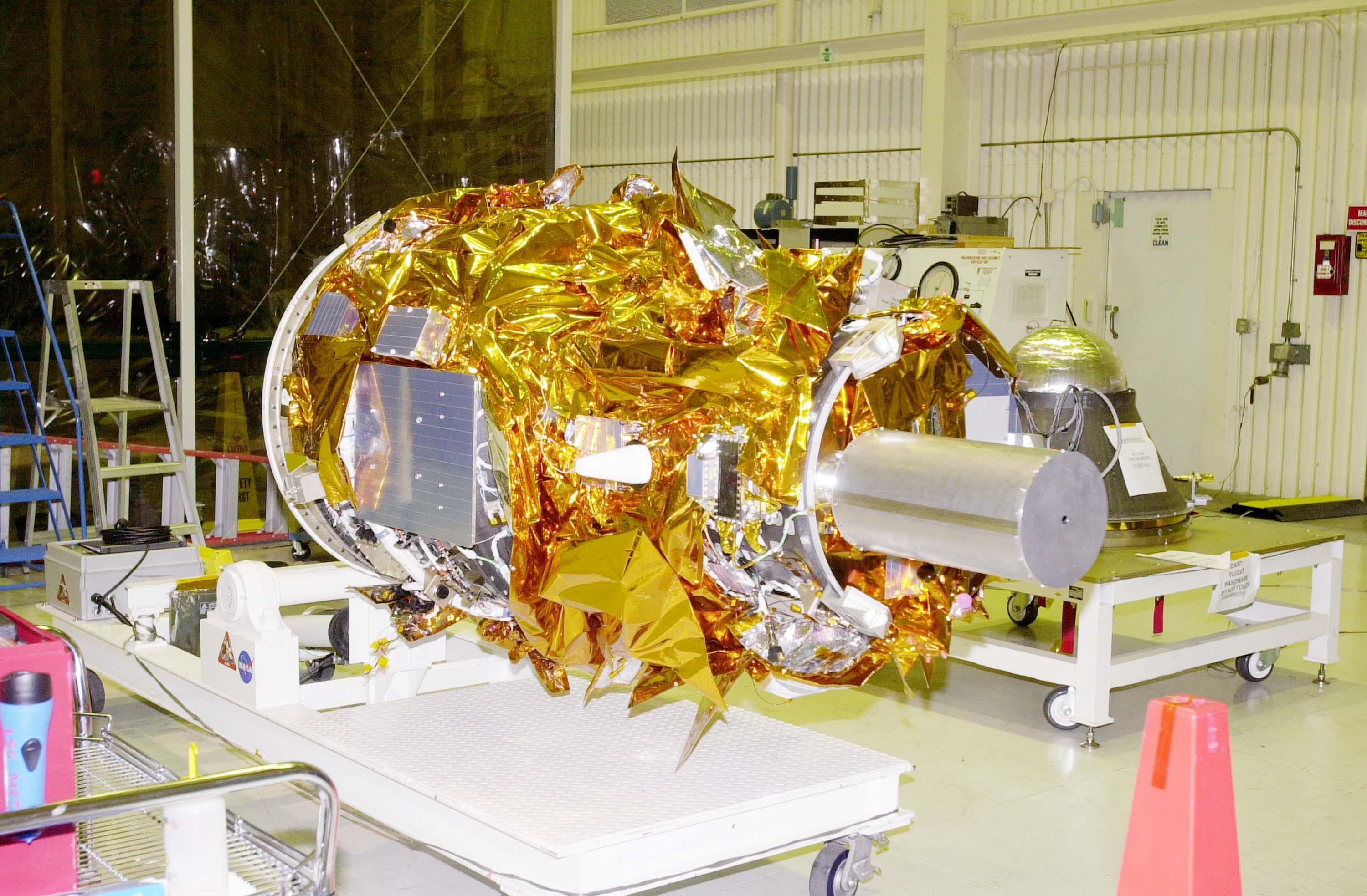 At Vandenberg Air Force Base in California, the Demonstration of Autonomous Rendezvous Technology (DART) spacecraft is ready for mating with the upper stage of the Orbital Sciences Pegasus XL behind it (right). DART was designed and built for NASA by Orbital Sciences Corporation as an advanced flight demonstrator to locate and maneuver near an orbiting satellite. DART weighs about 800 pounds and is nearly 6 feet long and 3 feet in diameter. The Pegasus XL will launch DART into a circular polar orbit of approximately 475 miles. DART is designed to demonstrate technologies required for a spacecraft to locate and rendezvous, or maneuver close to, other craft in space. Results from the DART mission will aid in the development of NASA’s Crew Exploration Vehicle and will also assist in vehicle development for crew transfer and crew rescue capability to and from the International Space Station.